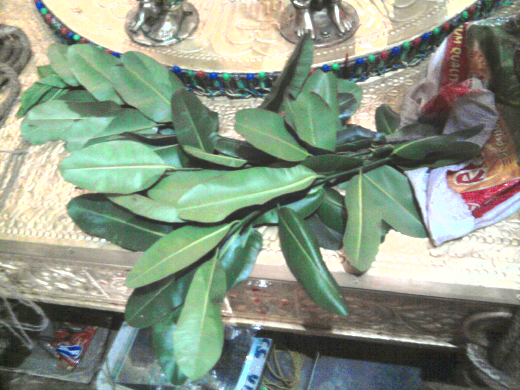 Ponnamaanu utsav